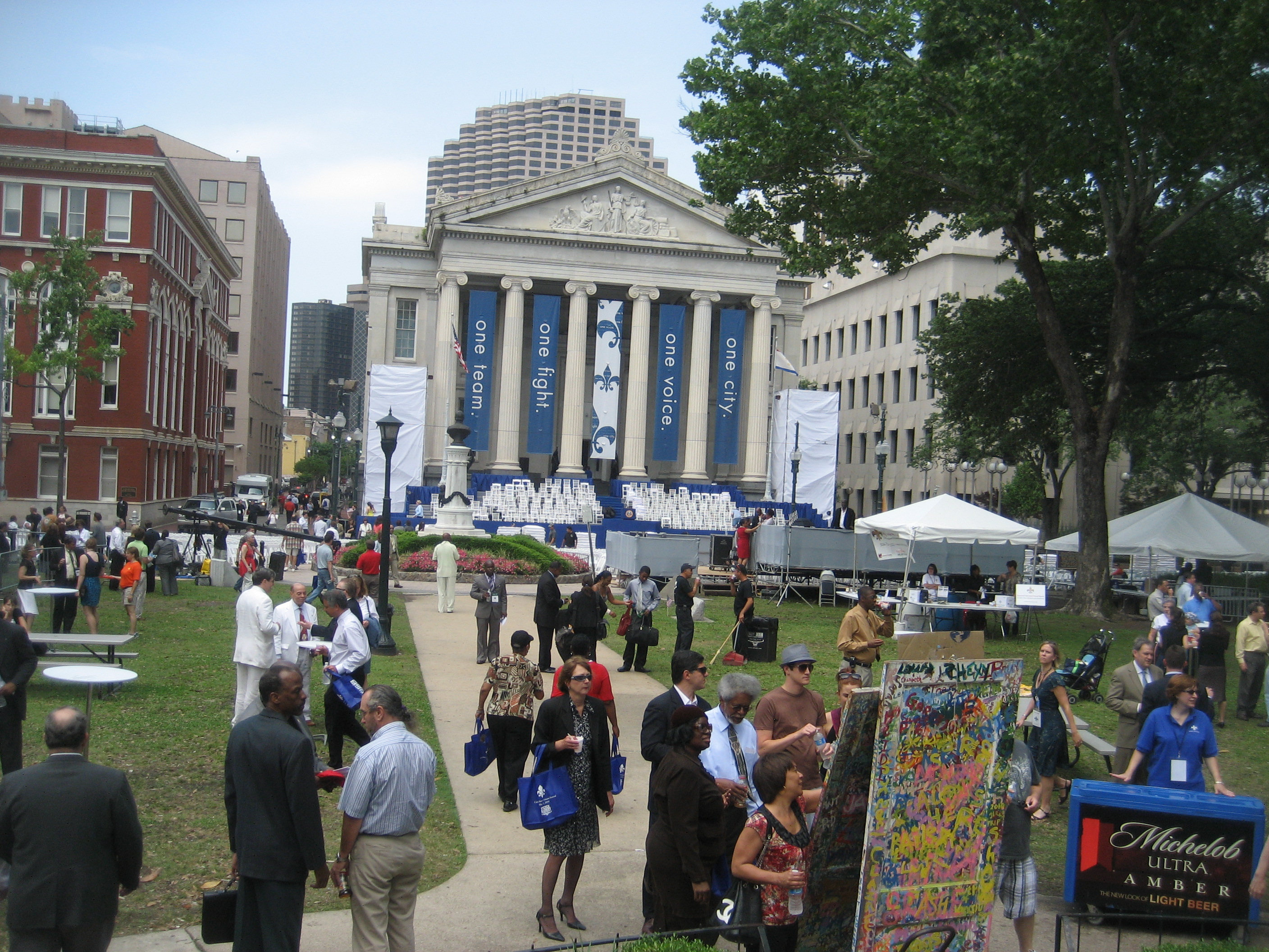 New Orleans, Louisiana. Festivities marking inauguration of new mayor Mitch Landrieu and the New Orleans City Council, Lafayette Square.